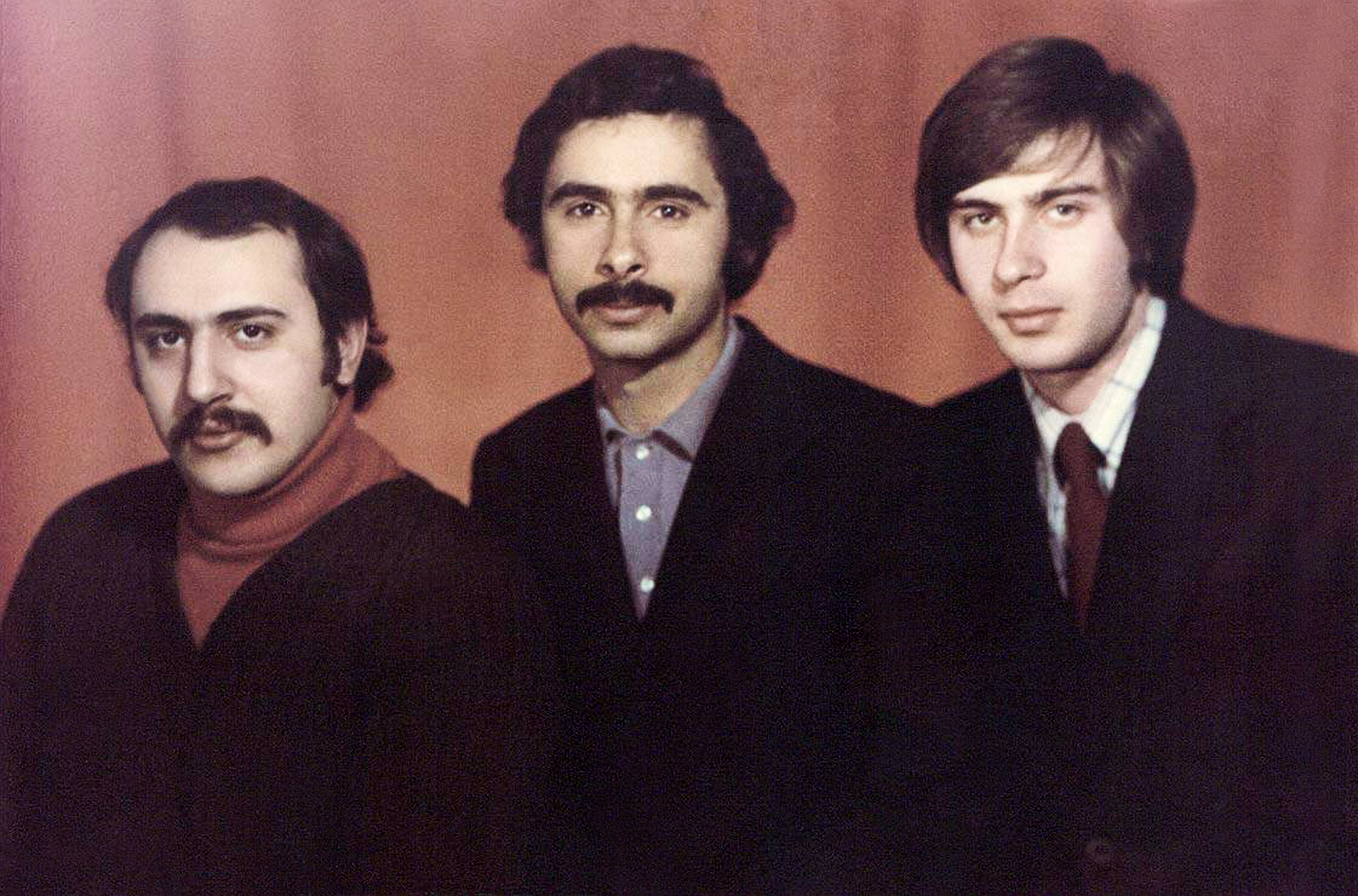 Eldar Mansurov, Mamedaga Umudov and Rafig Ismailov in 1977